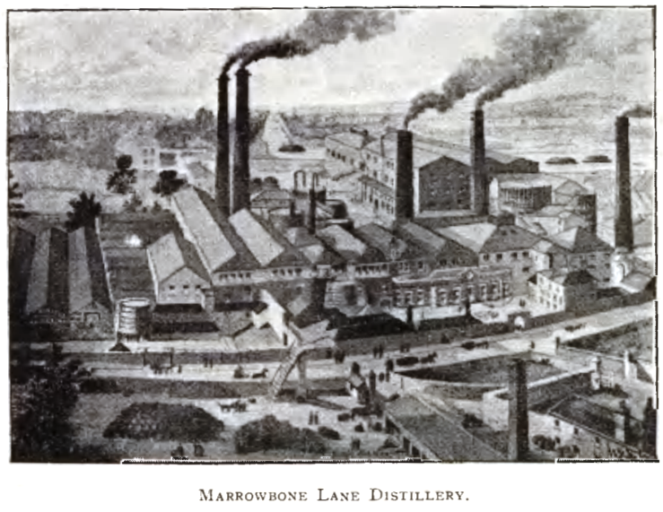 William Jameson & Co.'s Marrowbone Lane Distillery, Dublin, Ireland circa. 1892.